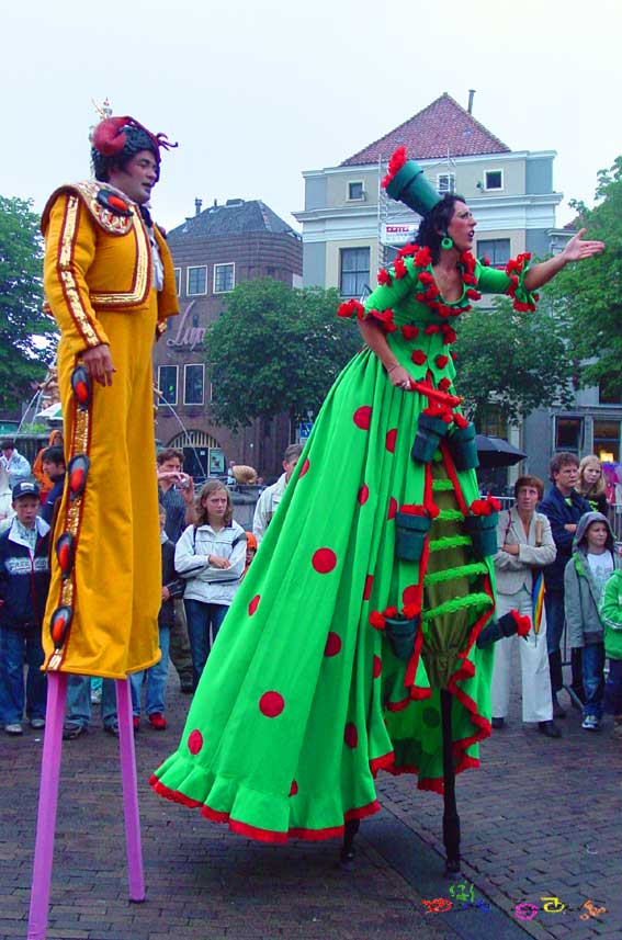 own work free for use with mention of source (wikipedia) and creator (Joep Zander: http:/joep.nl.nu)